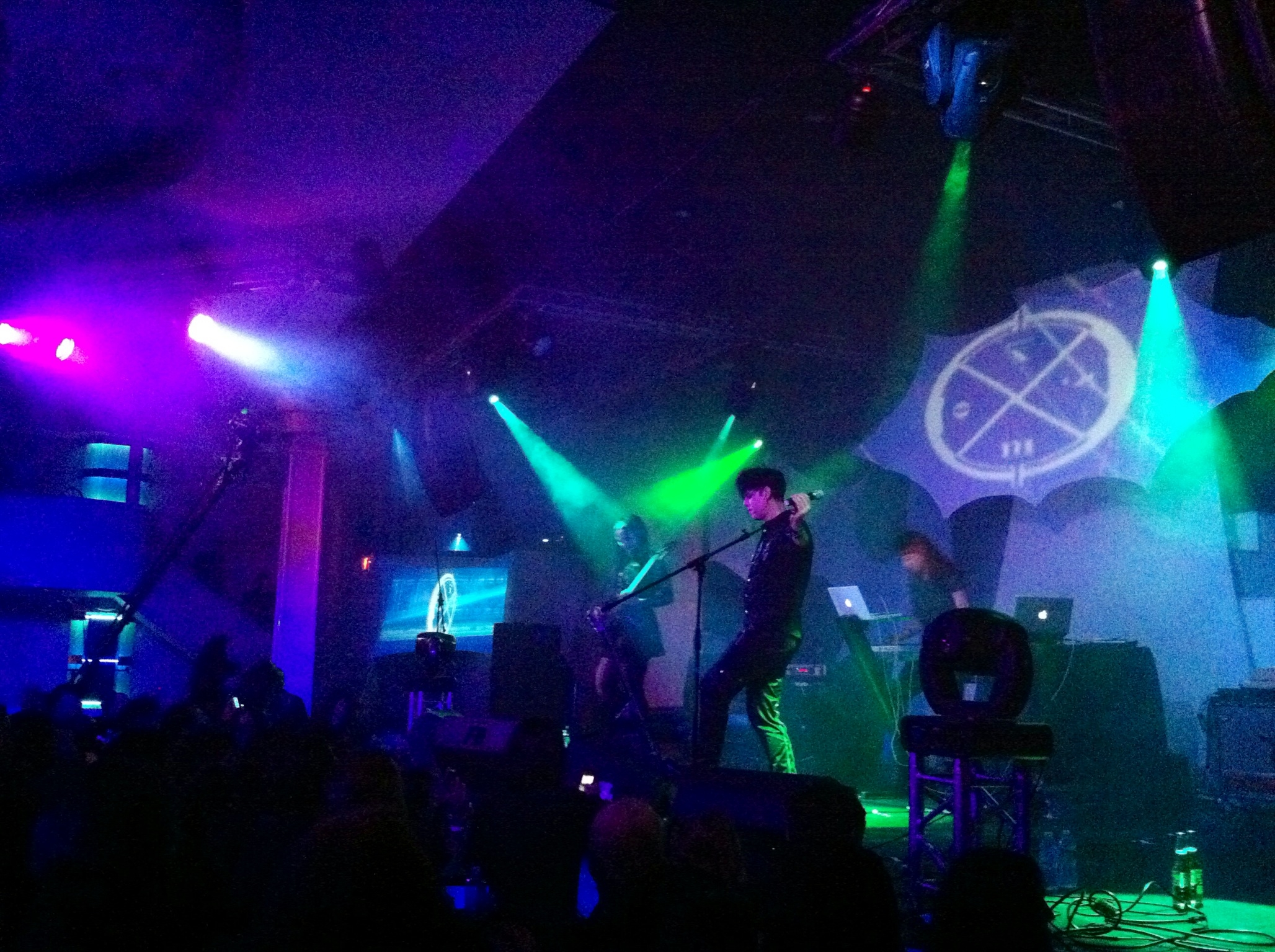 Xymox live at Triton Music Festival at Oceana Hall New York City, September 5, 2010